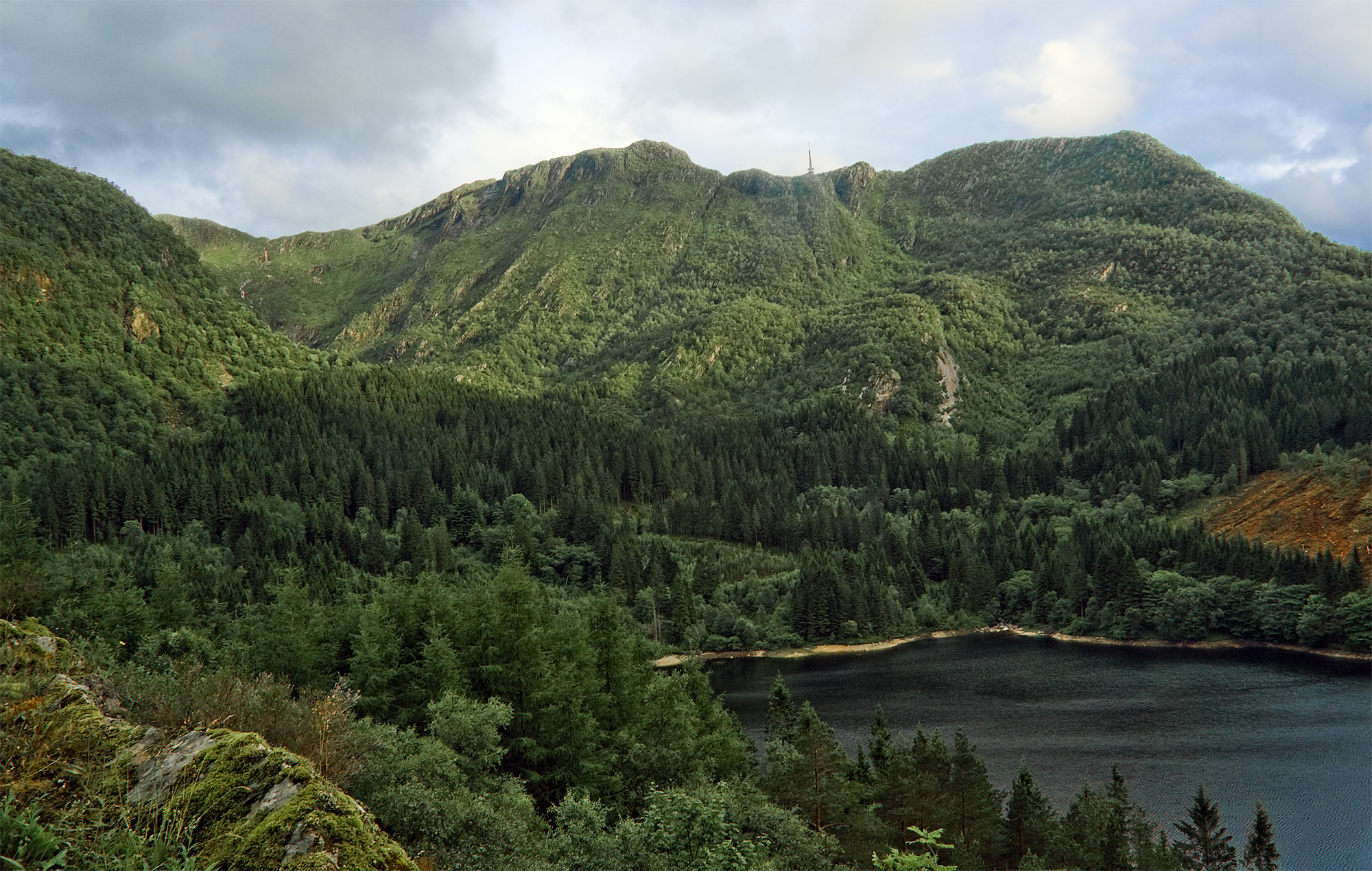 The lake Svartediket and mount Ulriken, Bergen, Norway.